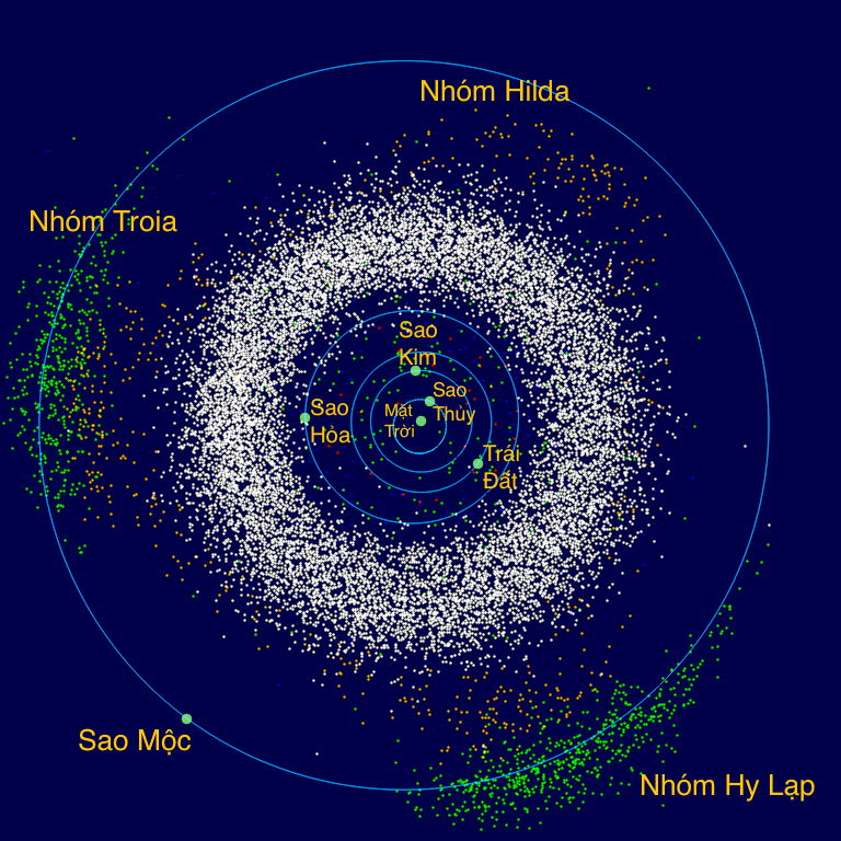 The inner Solar System, from the Sun to Jupiter. Also includes the Main Asteroid Belt (the white donut-shaped cloud), the Hildas (the orange "triangle" just inside the orbit of Jupiter) and the Jovian Trojan's (green). The group that leads Jupiter are called the "Greeks" and the trailing group are called the "Trojans" (Murray and Dermott, Solar System Dynamics, pg. 107). This image is based on data found in the JPL DE-405 ephemeris, and the Minor Planet Center database of asteroids (etc) published 2006 Jul 6. The image is looking down on the ecliptic plane as would have been seen on 2006 August 14. It was rendered by custom software written for Wikipedia. The inner Solar System, from the Sun to Jupiter. Also includes the Main Asteroid Belt (the white donut-shaped cloud), the Hildas (the orange "triangle" just inside the orbit of Jupiter) and the Jovian Trojans (green). The group that leads Jupiter are called the "Greeks" and the trailing group are called the "Trojans" (Murray and Dermott, Solar System Dynamics, pg. 107). This image is based on data found in the JPL DE-405 ephemeris, and the Minor Planet Center database of asteroids (etc) published 2006 Jul 6. The image is looking down on the ecliptic plane as would have been seen on 2006 August 14. It was rendered by custom software written for Wikipedia. The same image without labels is also available.